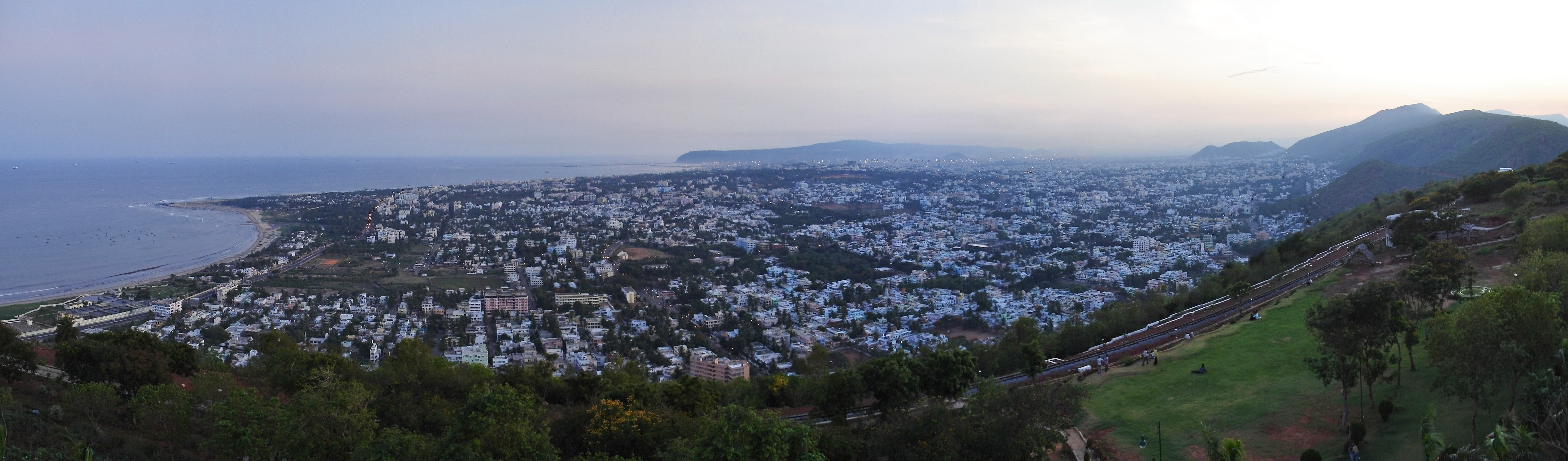 A panoramic view of Vishakapatnam from Kailasgiri during sunset